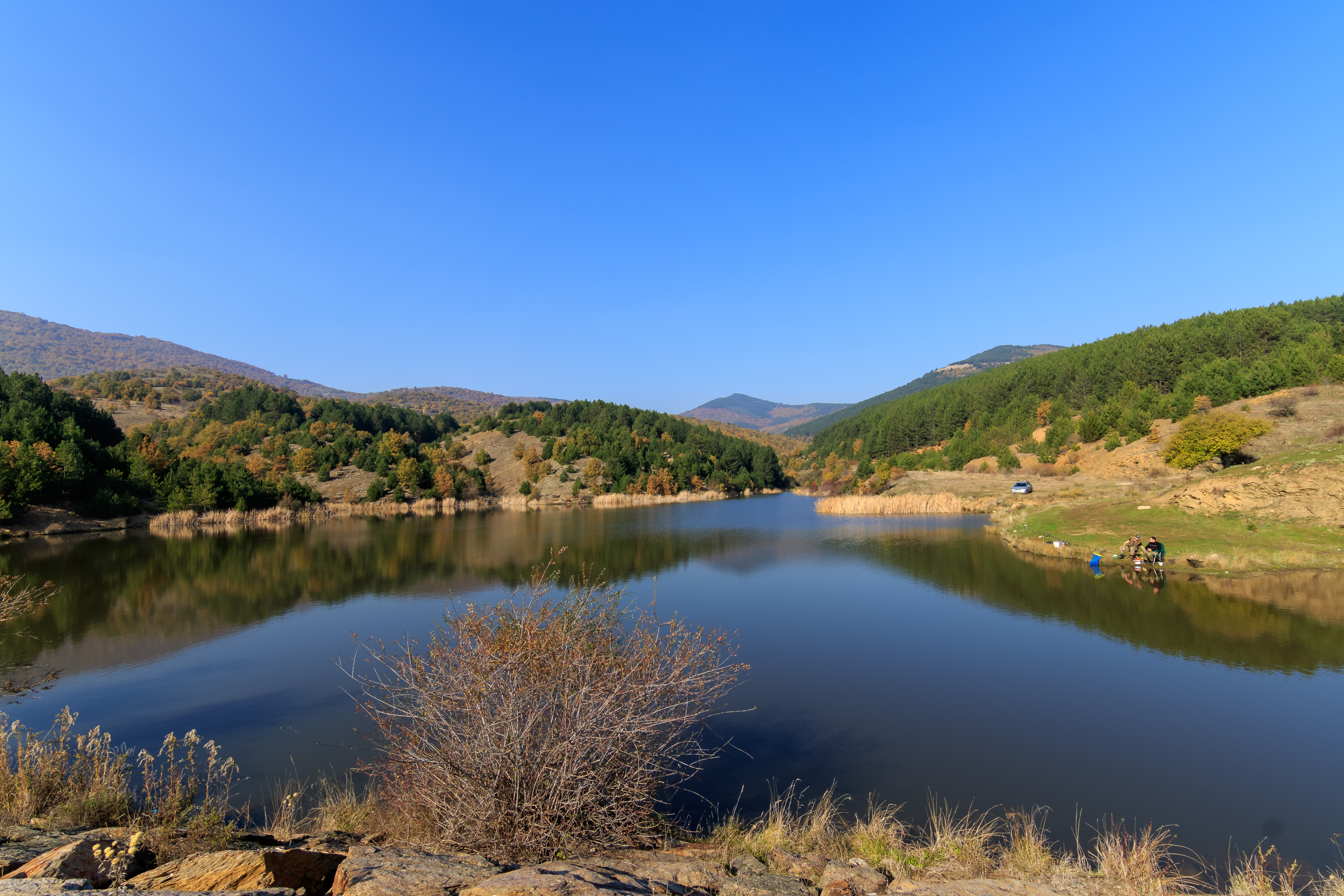 View of the Otošnica Lake in the village Otošnica